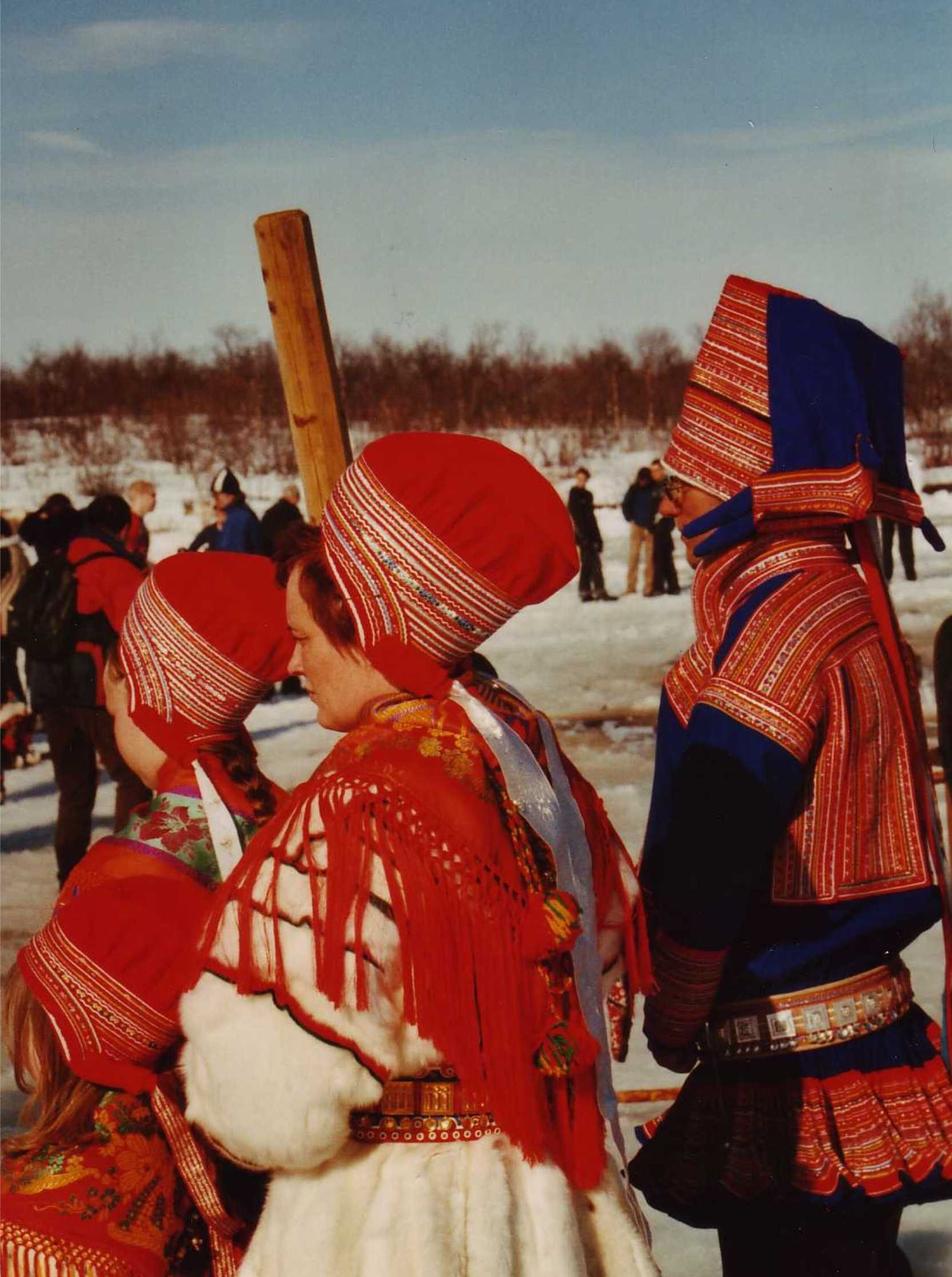 Sami family at spring (Easter) celebration. Attribute Mortsan.